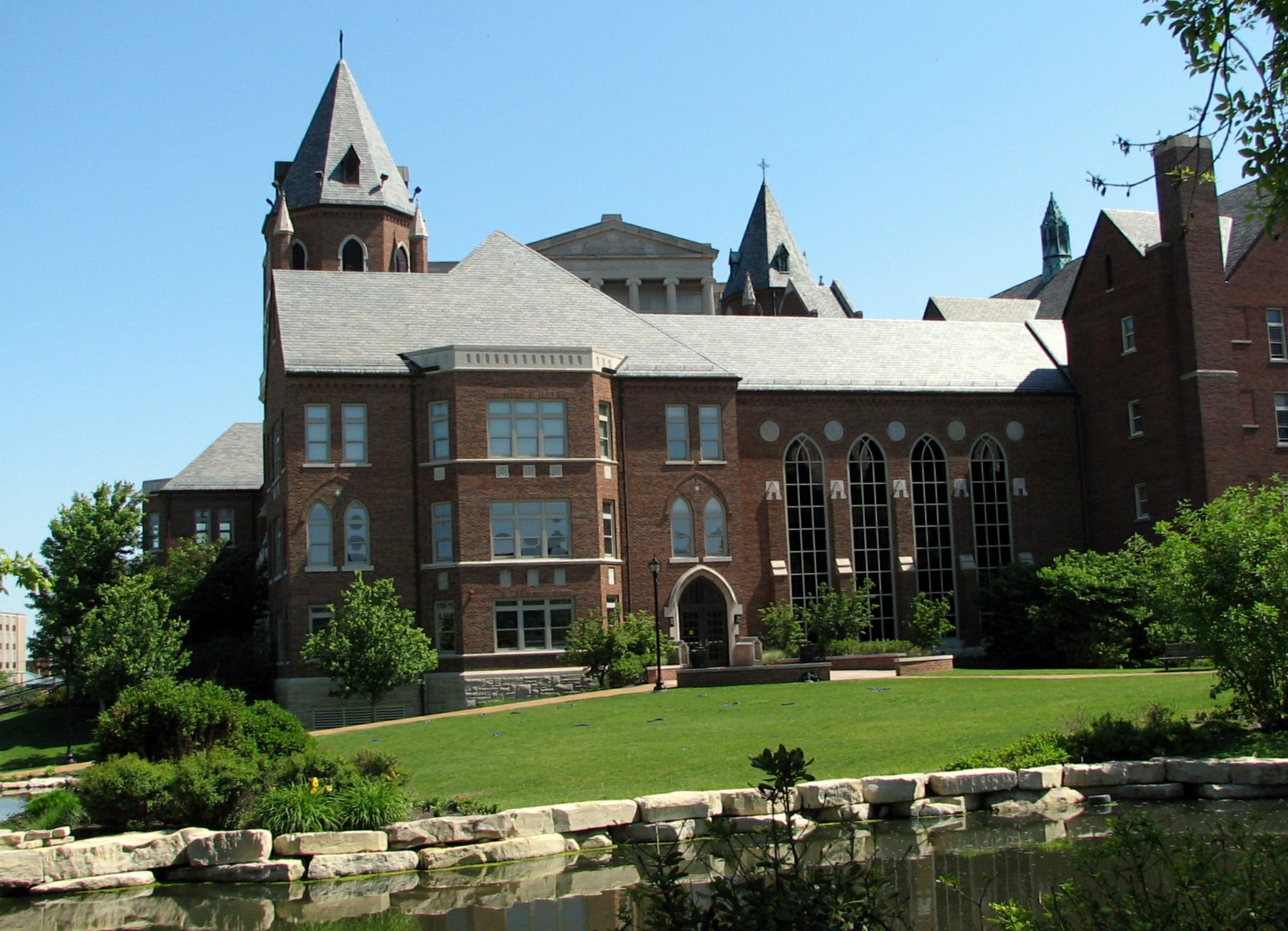 Saint Louis University's John Cook School of Business, seen from the Central Mall.